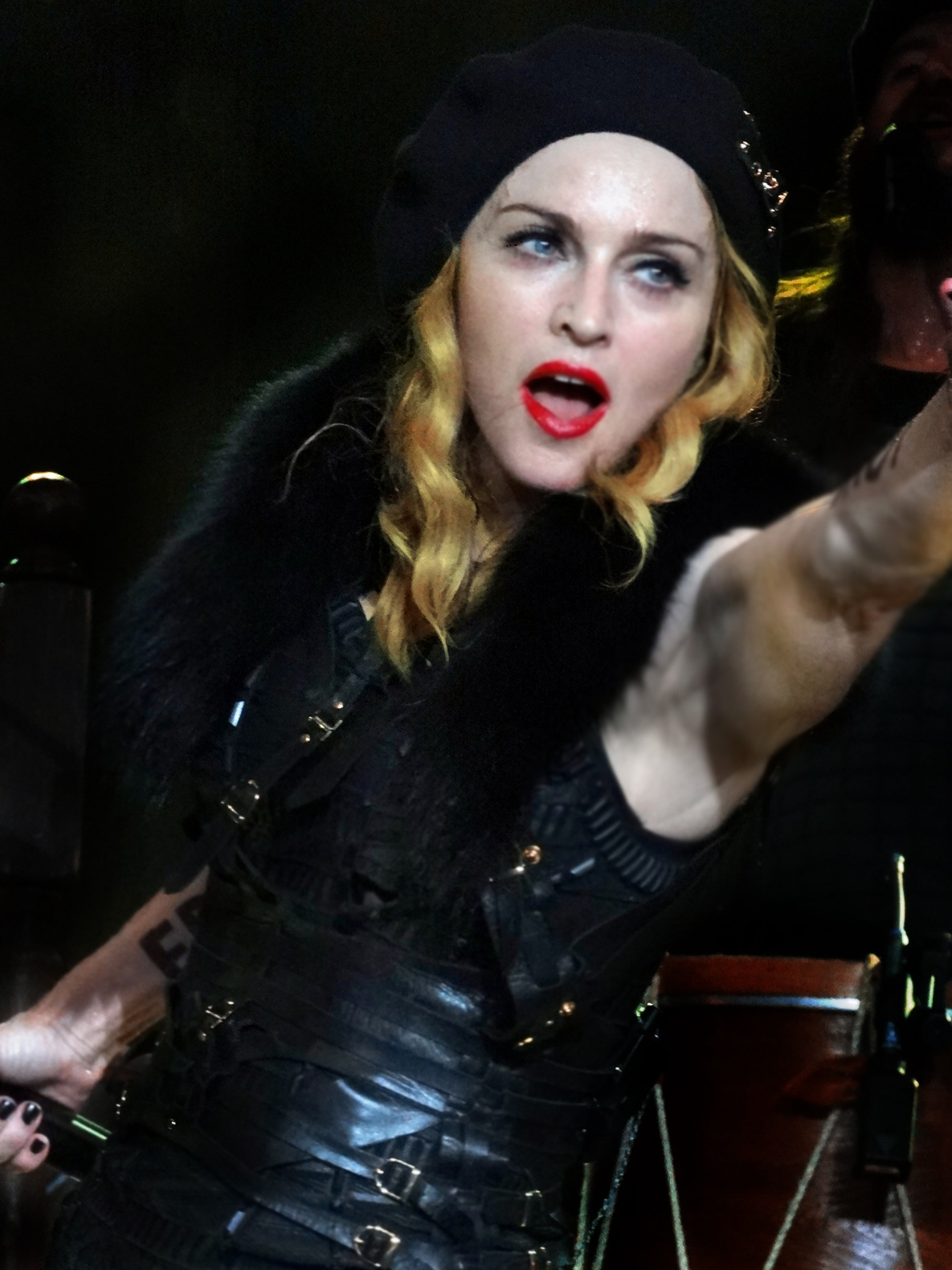 Madonna performing on the MDNA Tour